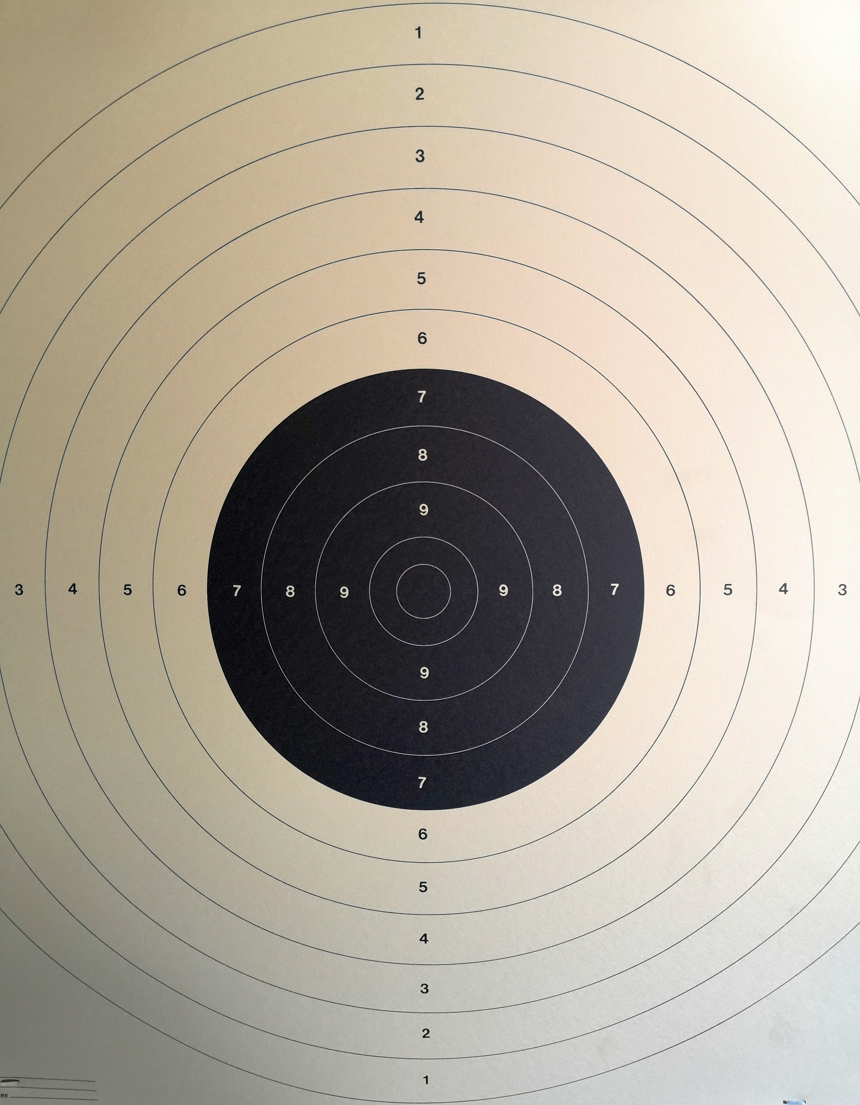 A typical bullseye target used for competitive shooting